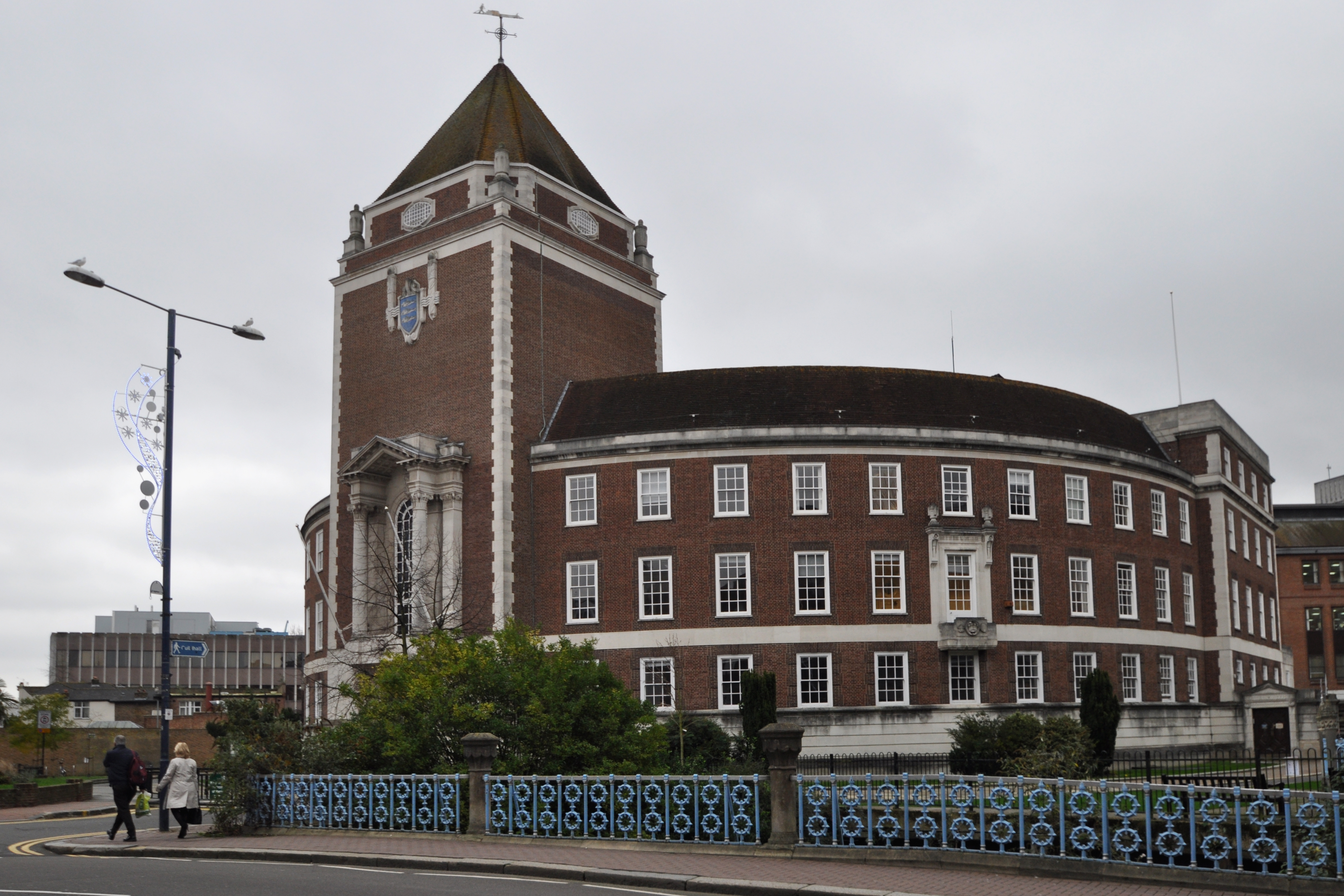 The Guildhall Wikidata has entry Q26354364 with data related to this item.